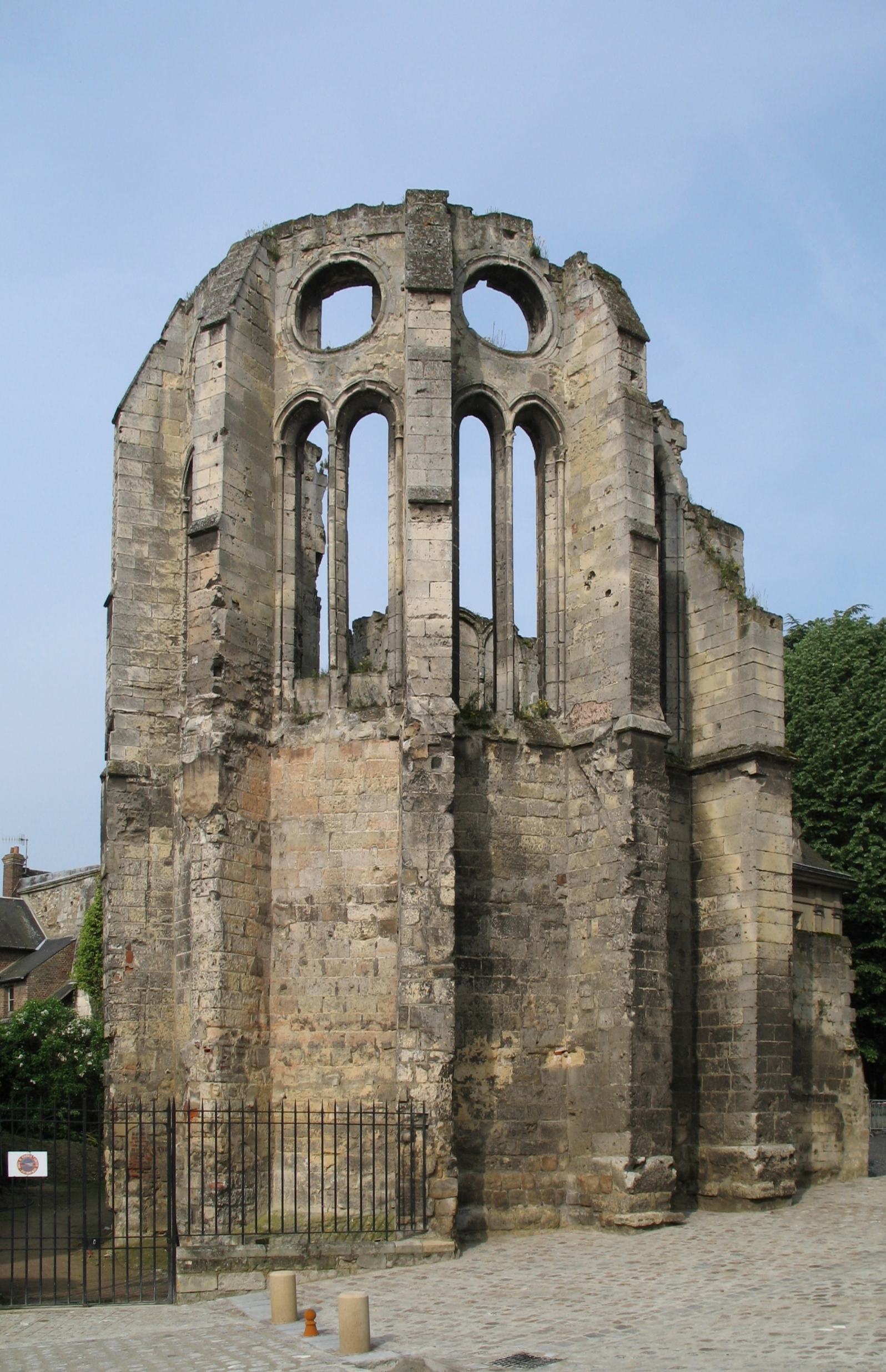 Noyon (département de l'Oise, France): ruins of the bishop's chapel, next to the Notre-Dame Cathedral